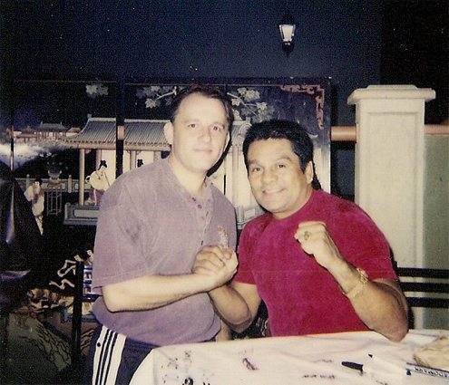 One of my earliest photos: writer Prvoslav Vujcic and boxer Roberto Durán in 1998.